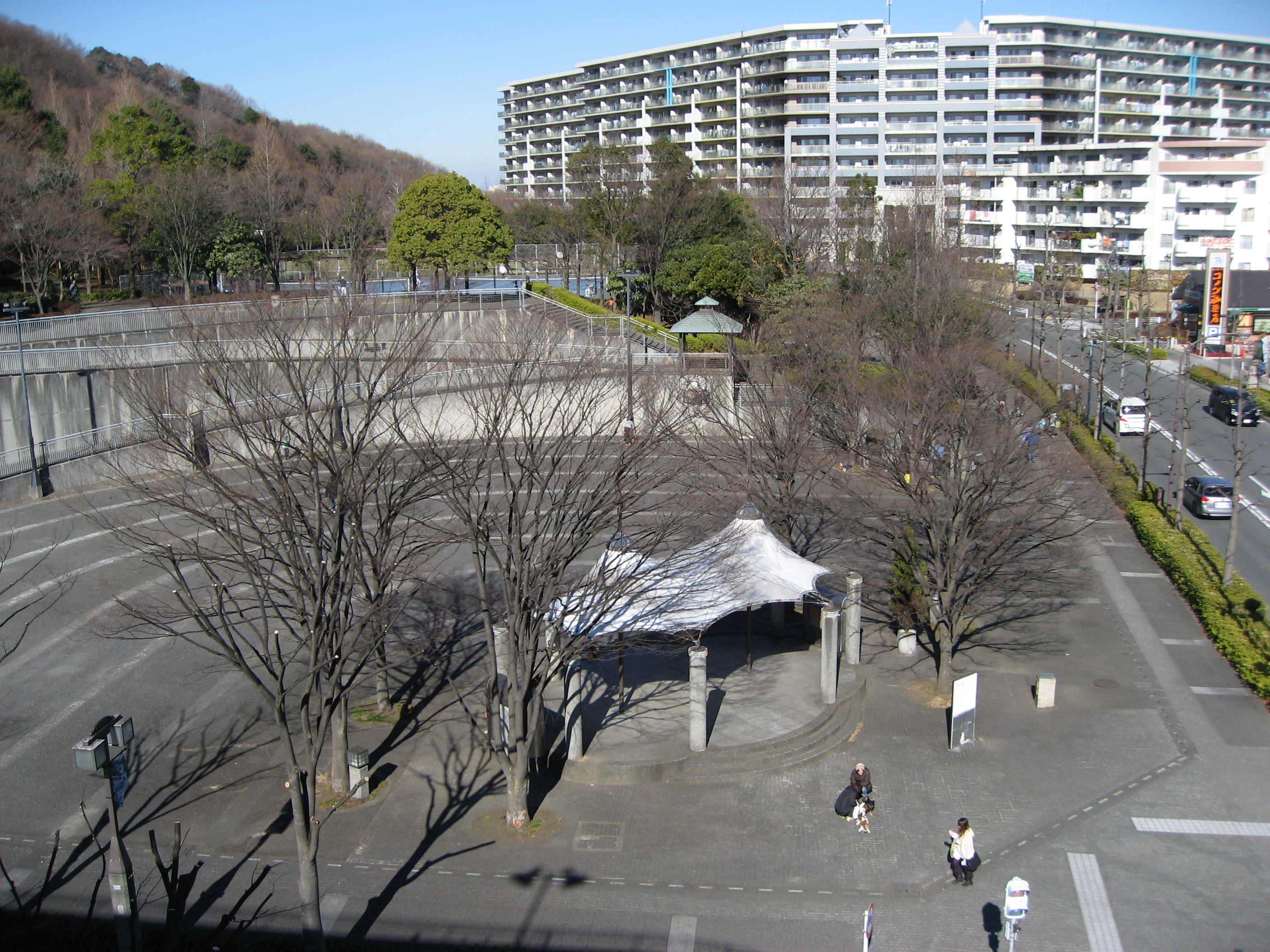 Shiroyama Park viewed from Sanwa Market in Inagi, Tokyo, Japan.